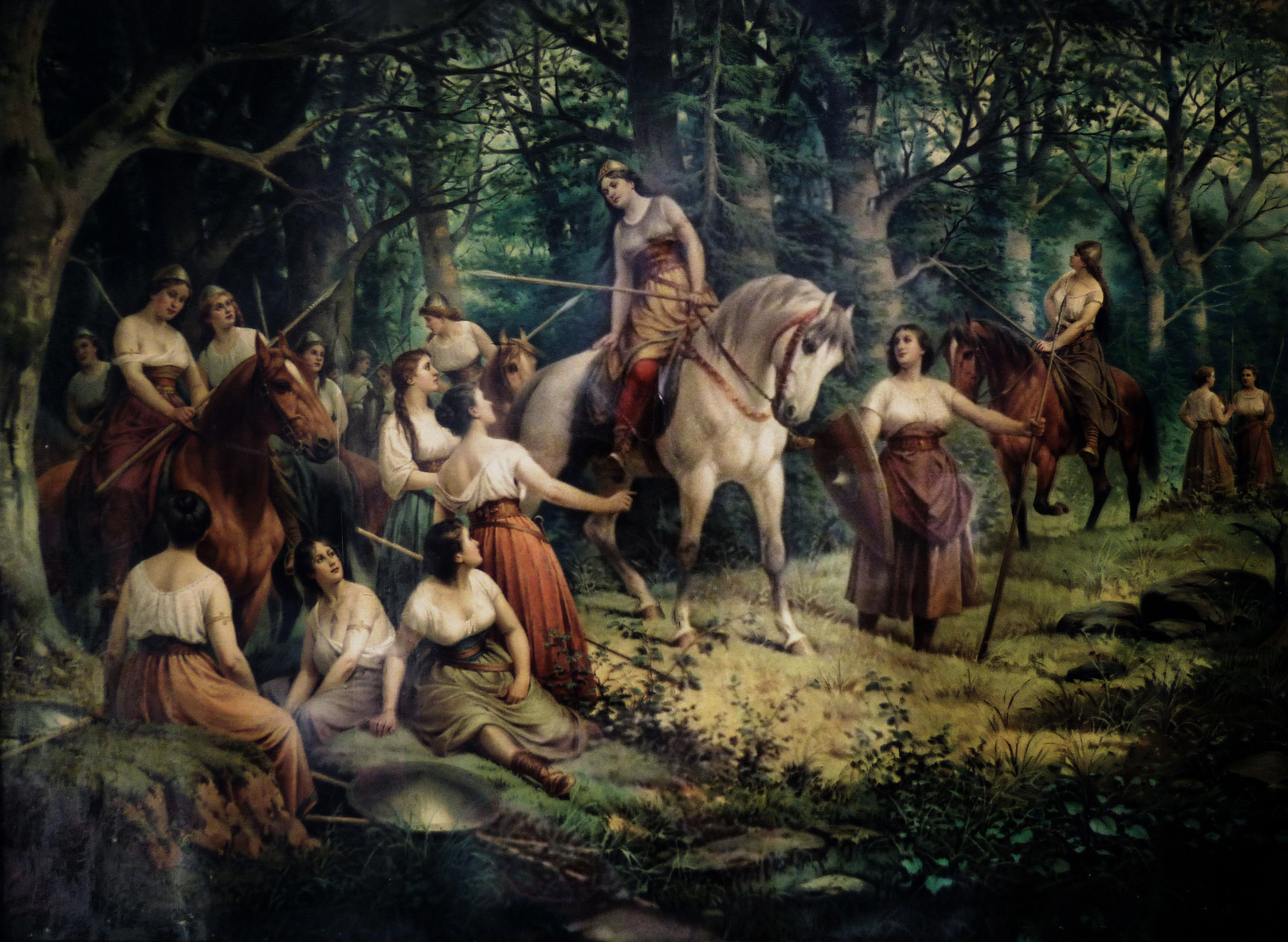 Josef Mathauser – Maiden's war (1907)